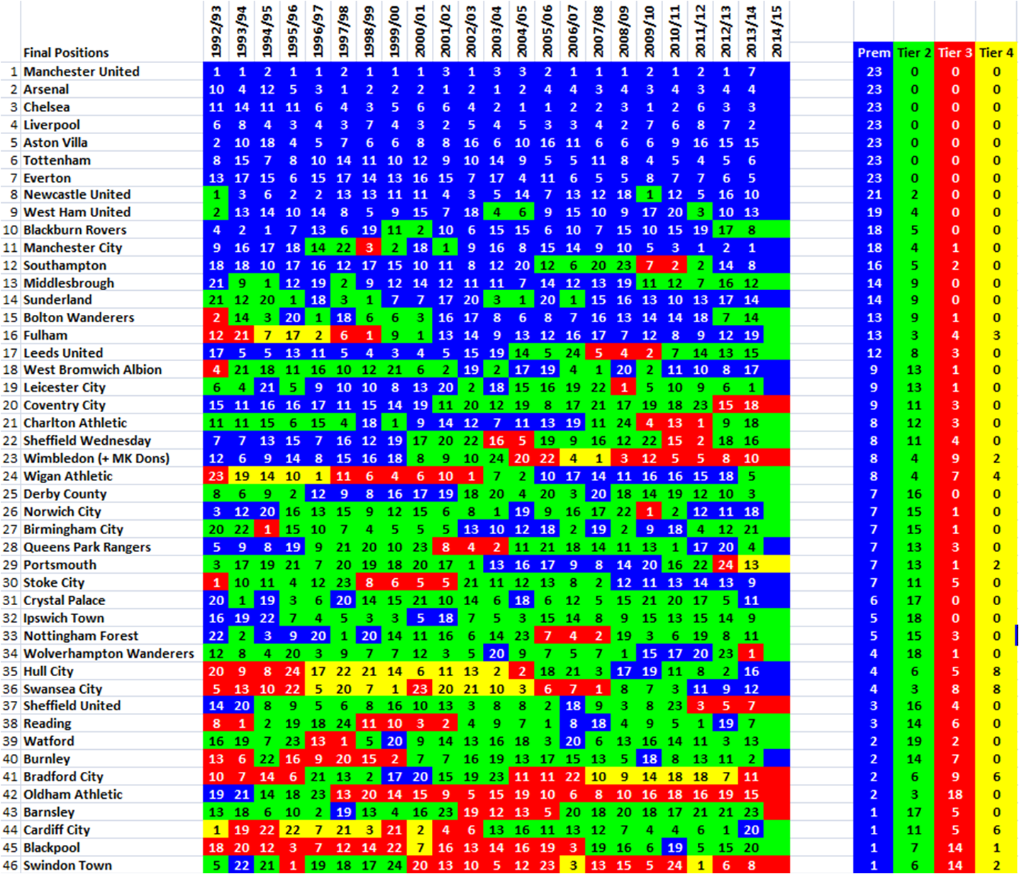 League history of all current and former Premier League teams from 92-93 to the present day. Based on an existing file by Rassmuss, covering 92-93 to 11-12.